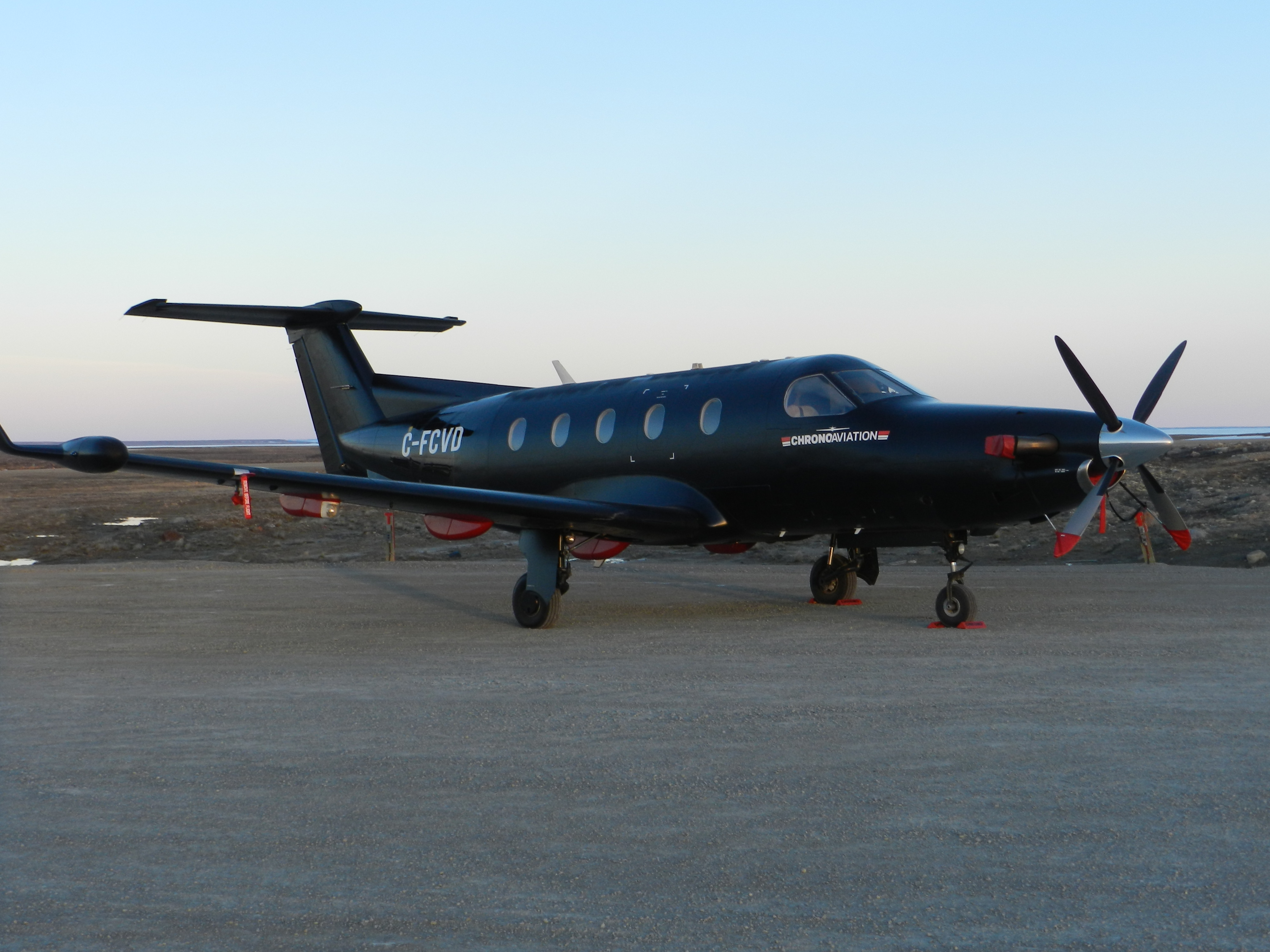 C-FCVD PC12 Chrono Aviation, Quebec at Cambridge Bay Airport